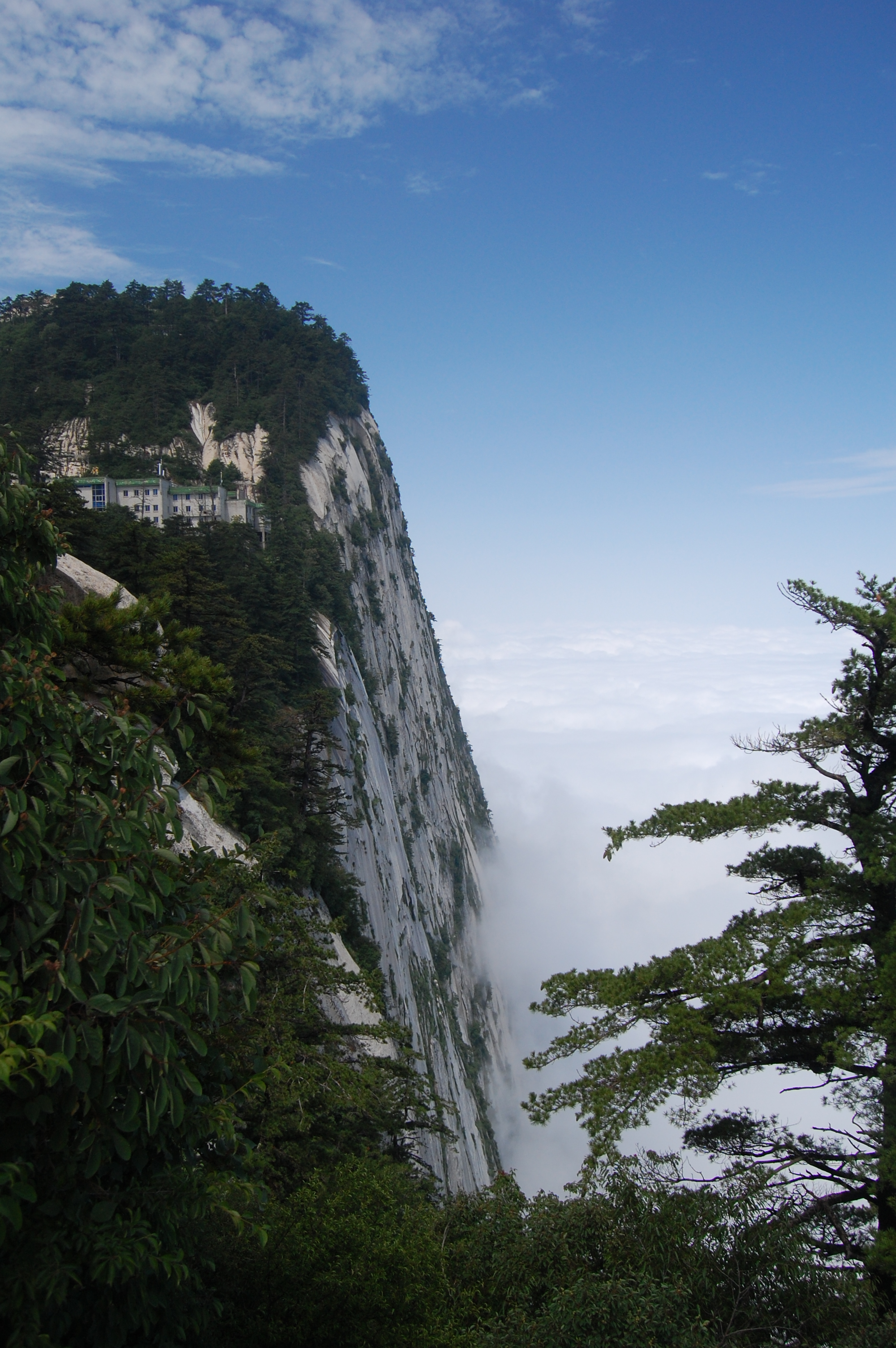 The Mount Huashan near Xi'an. steep and precipitous cliffs,Tree at right is Pinus armandii.